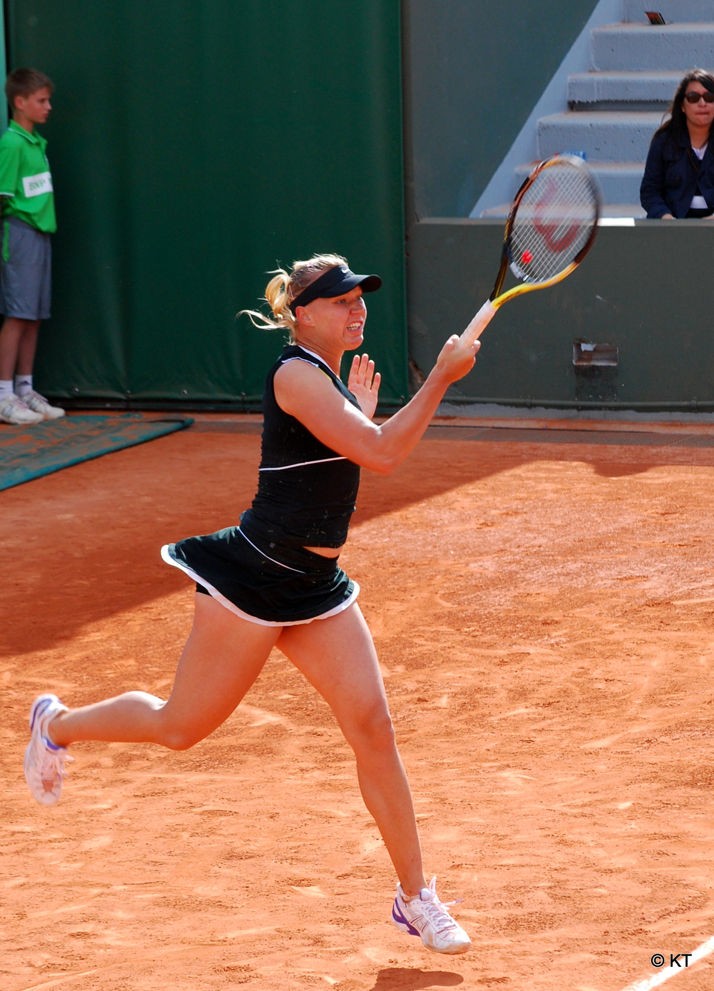 Kaia Kanepi at Roland Garros 2011, during her second round match against Heather Watson. Kanepi won 6-1, 6-3.